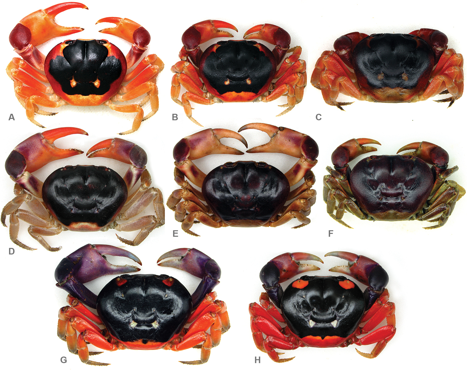 Gecarcinus lateralis (Freminville, 1835) (sensu Türkay 1973), dorsal view, color in life, in hard-shell condition. Atlantic coast, Costa Rica, Puerto Viejo, showing the forms limiting the range of color variability: A male, carapace width (CW) 39 mm B male, CW 29 mm C female, CW 32 mm D male, CW 44 mm E male, CW 47 mm F female, CW 33 mm. Pacific coast (often recognized as a separate species, Gecarcinus quadratus): Costa Rica, Playa Hermosa: G male, CW 58 mm H male, CW 38 mm.